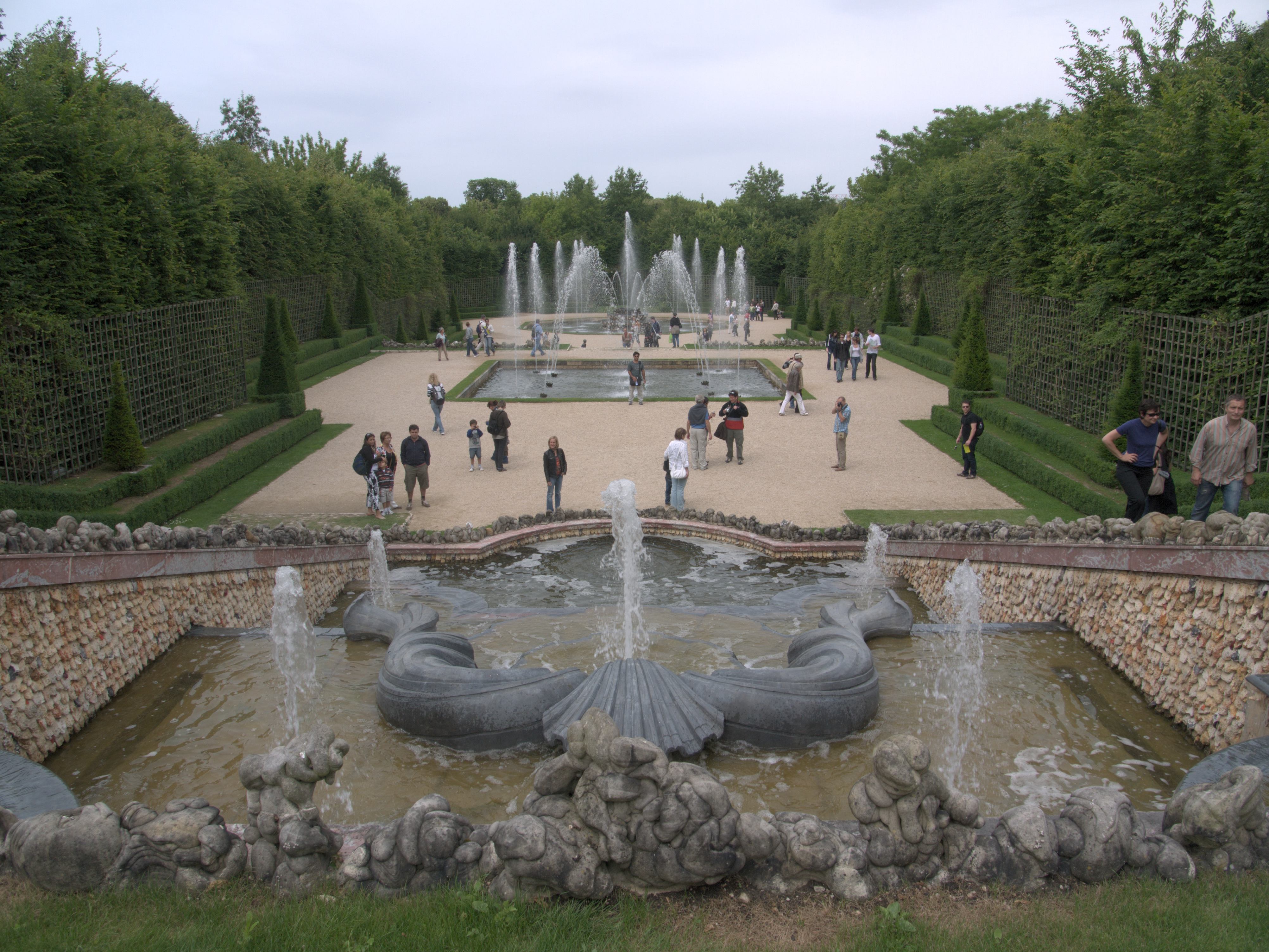 Photograph taken at the Park of the 'Château de Versailles' in France.